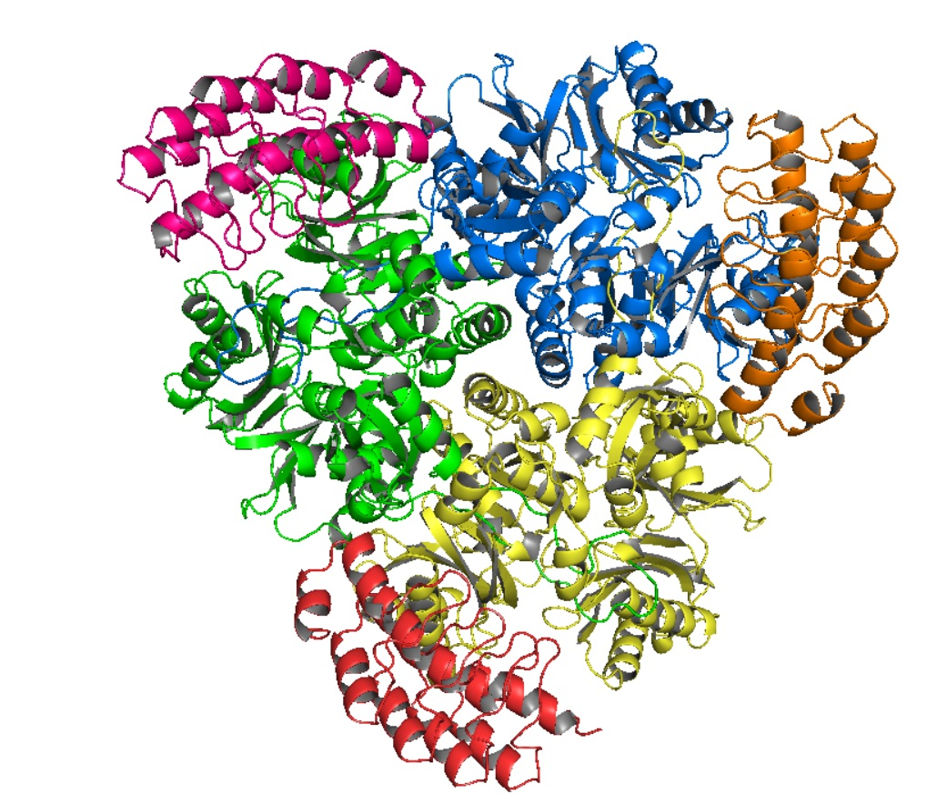 AcrB is a HAE-RND efflux protein involved in the exportation of amphillic and drug-like molecules.